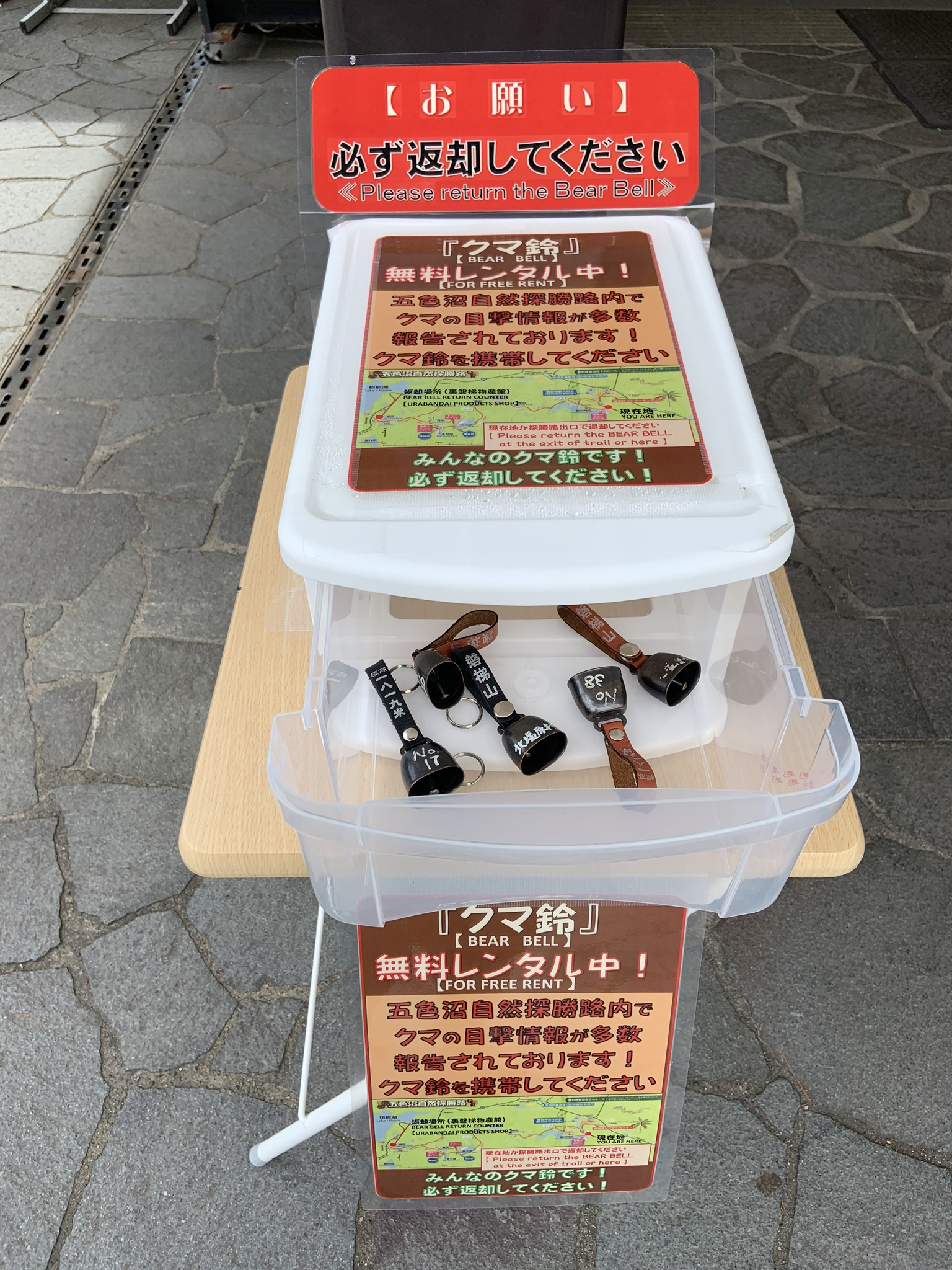 Bear avoiding Bells, Free Rent for Sightseers. This photo was taken at URA-BANDAI Visitor Center, Fukushima Prefecture, Japan.